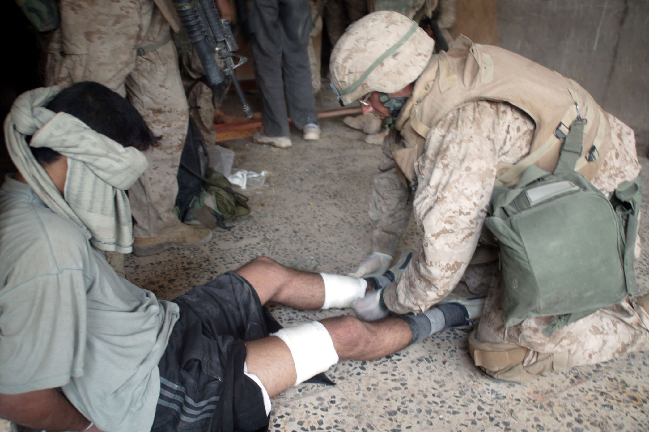 Fallujah, Iraq (Nov. 13, 2004) - Hospital Corpsman Lucas Jushinski of Seattle, Wash., assigned to Company B, 1st Battalion 8th Marine Regiment, Regimental Combat Team 7, administers aid to a wounded detainee in Fallujah, Iraq, during Operation Al Fajr. Navy Corpsmen are embedded within each unit and have the responsibility of administering first aid, setting up a casualty collection point, and checking on the overall morale of the Marines. U.S. Marine Corps photo by Cpl. Joel A. Chaverri (RELEASED)